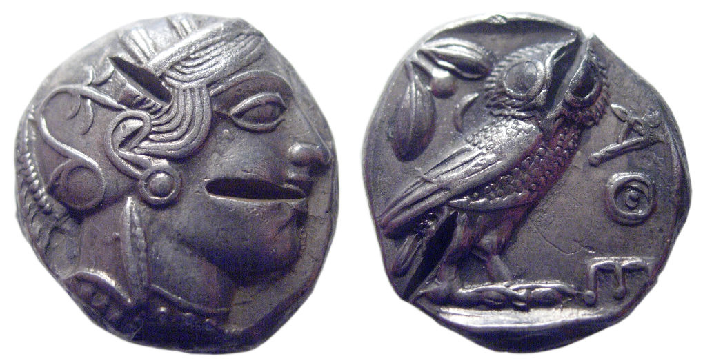 Athens Tetradrachms with multiple test cuts